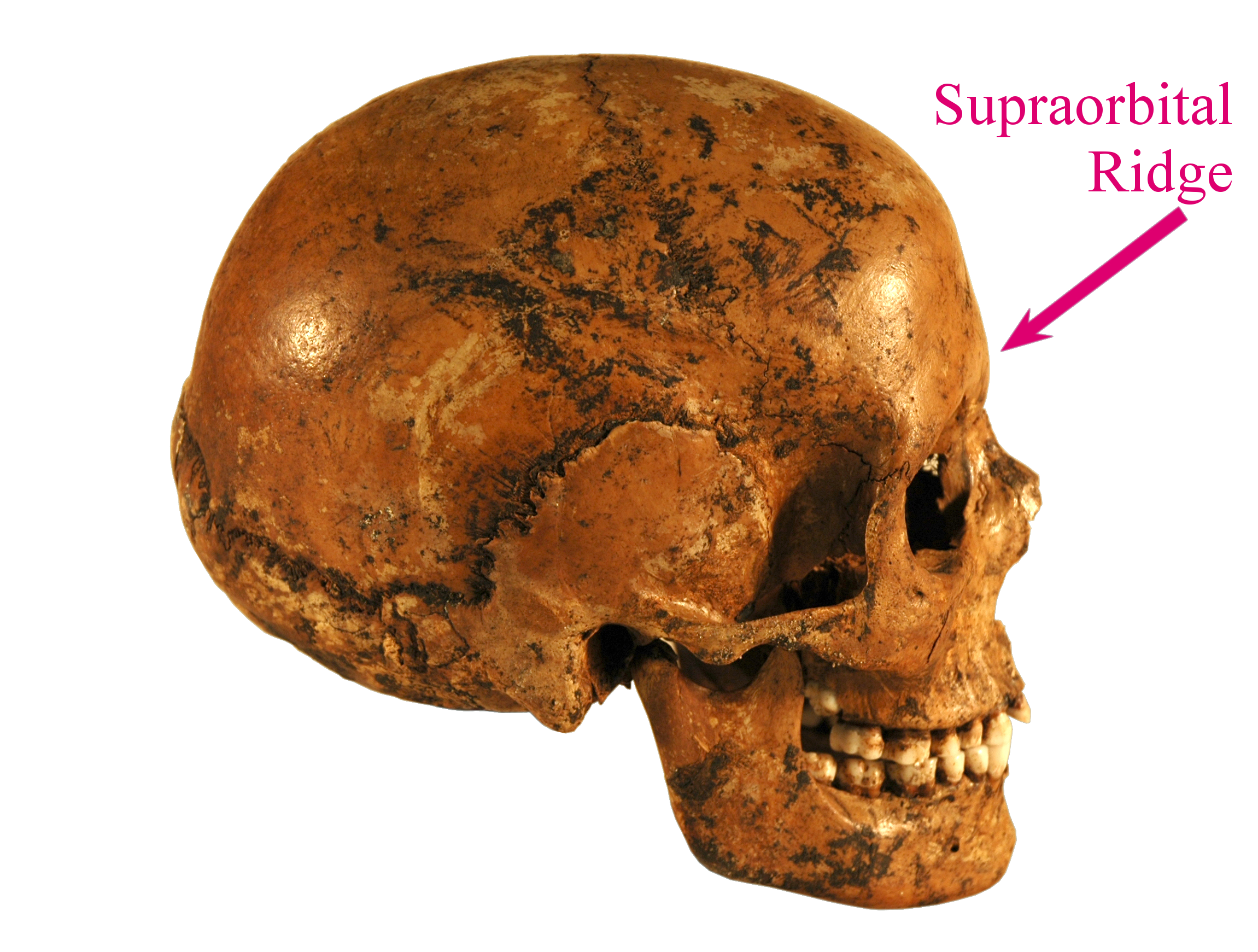 Photograph of a human skull, with the supraorbital ridge labeled in English. I edited the original wikimedia commons file (Hallonflickans_kranium) so that it would a) be in English and b) only point to the Supraorbital ridge.